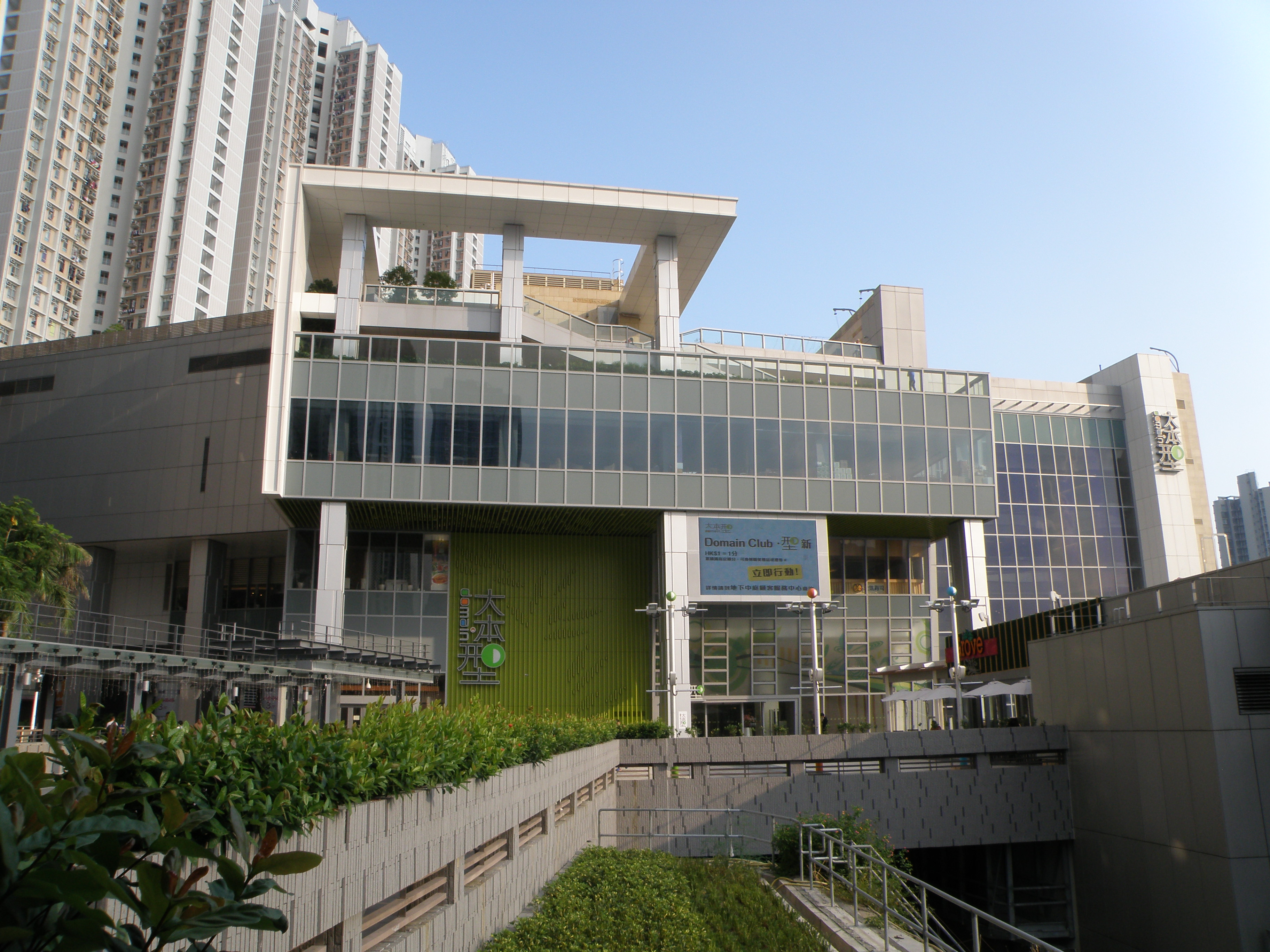 Domain in Yau Tong, Hong Kong.